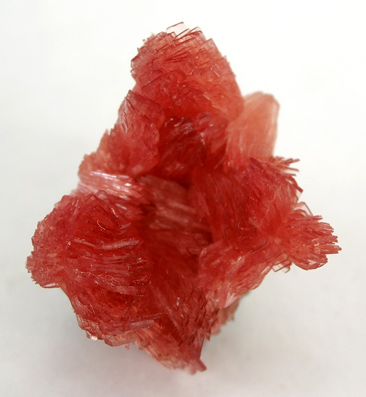 Inesite Locality: Wessels Mine (Wessel's Mine), Hotazel, Kalahari manganese fields, Northern Cape Province, South Africa (Locality at ) Size: thumbnail, 3 x 2.5 x 2 cm Inesite This is a cherry-red, lustrous, somewhat gemmy inesite from the famous early 1980s pocket that yielded the best quality of inesite found at these mines. Today, the pieces from this pocket are recognizably more lustrous and red than from other finds, and carry a premium. This is a super thumbnail example from the find!